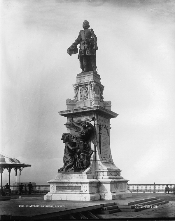 Photograph, Champlain Monument, Quebec City, QC, Silver salts on glass - Gelatin dry plate process - 25 x 20 cm